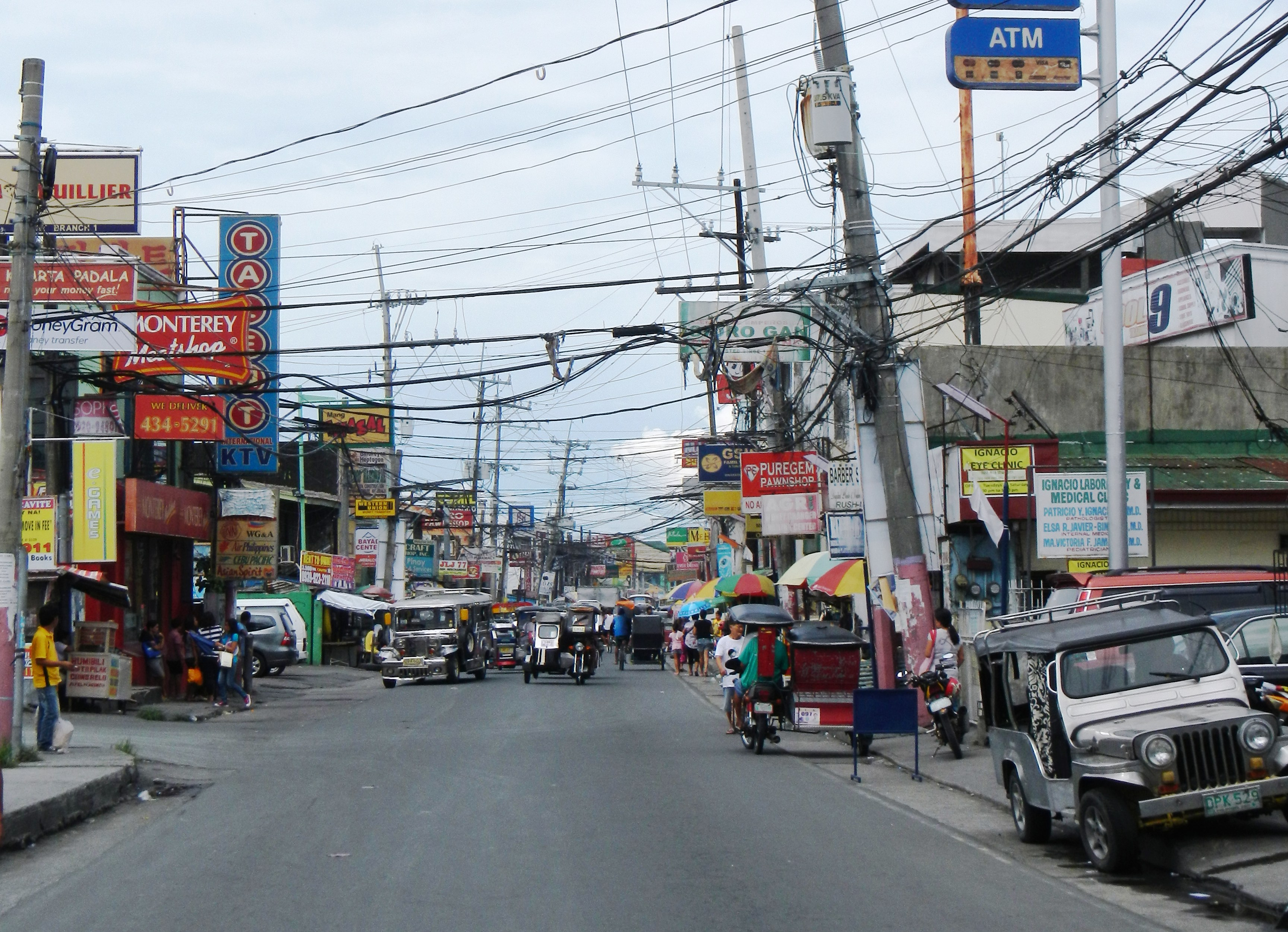 Kawit, Cavite, Philippines